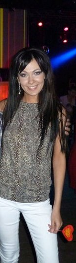 Singer Anastasia Vinnikova from Belarus